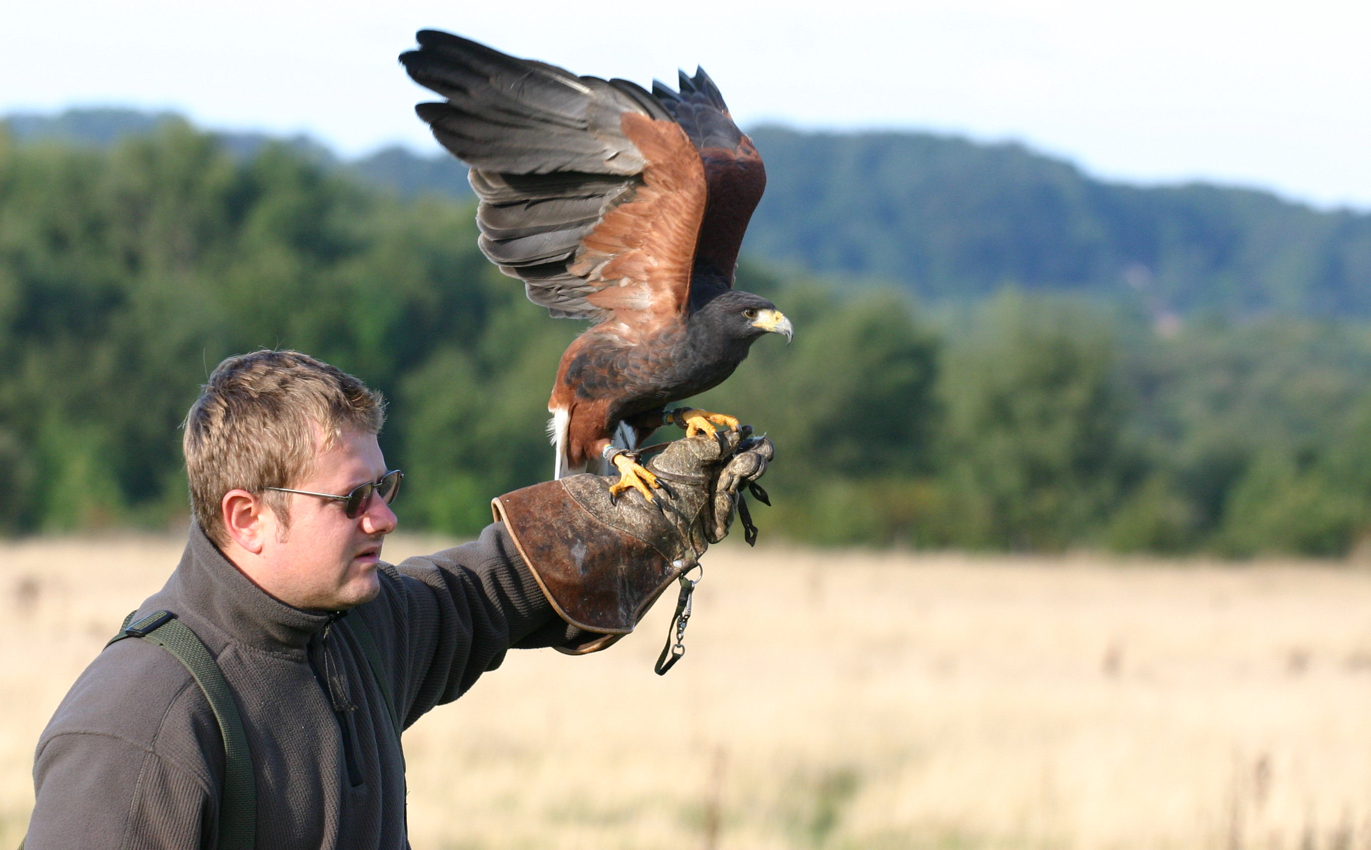 A six=year=old female Harris' Hawk (Parabuteo unicinctus) preparing to takeoff.